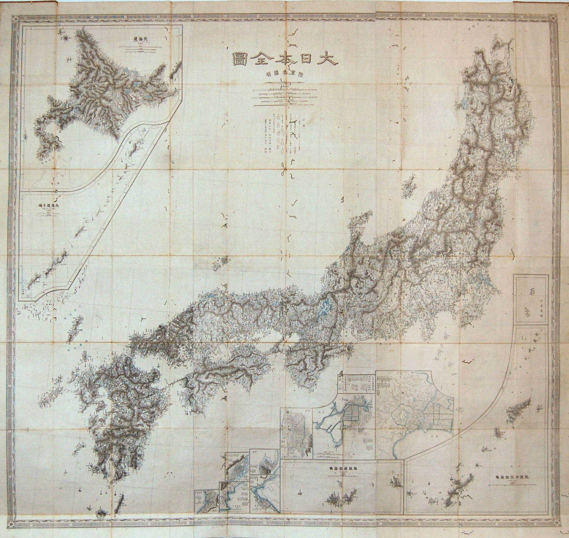 This is a stunning Meiji 11 or 1878 pocket or folding map of Japan. Based on survey work performed by the legendary Ino Tadataka during the Edo Period, this map reflects the stunning detail inherent to Tadataka maps. Covers Japan in full with thirteen insets detailing Hokkaido, Edo (Tokyo), the smaller Japanese Islands, and several important Japanese cities. This map was issued in the Meiji era for use by the Japanese military.